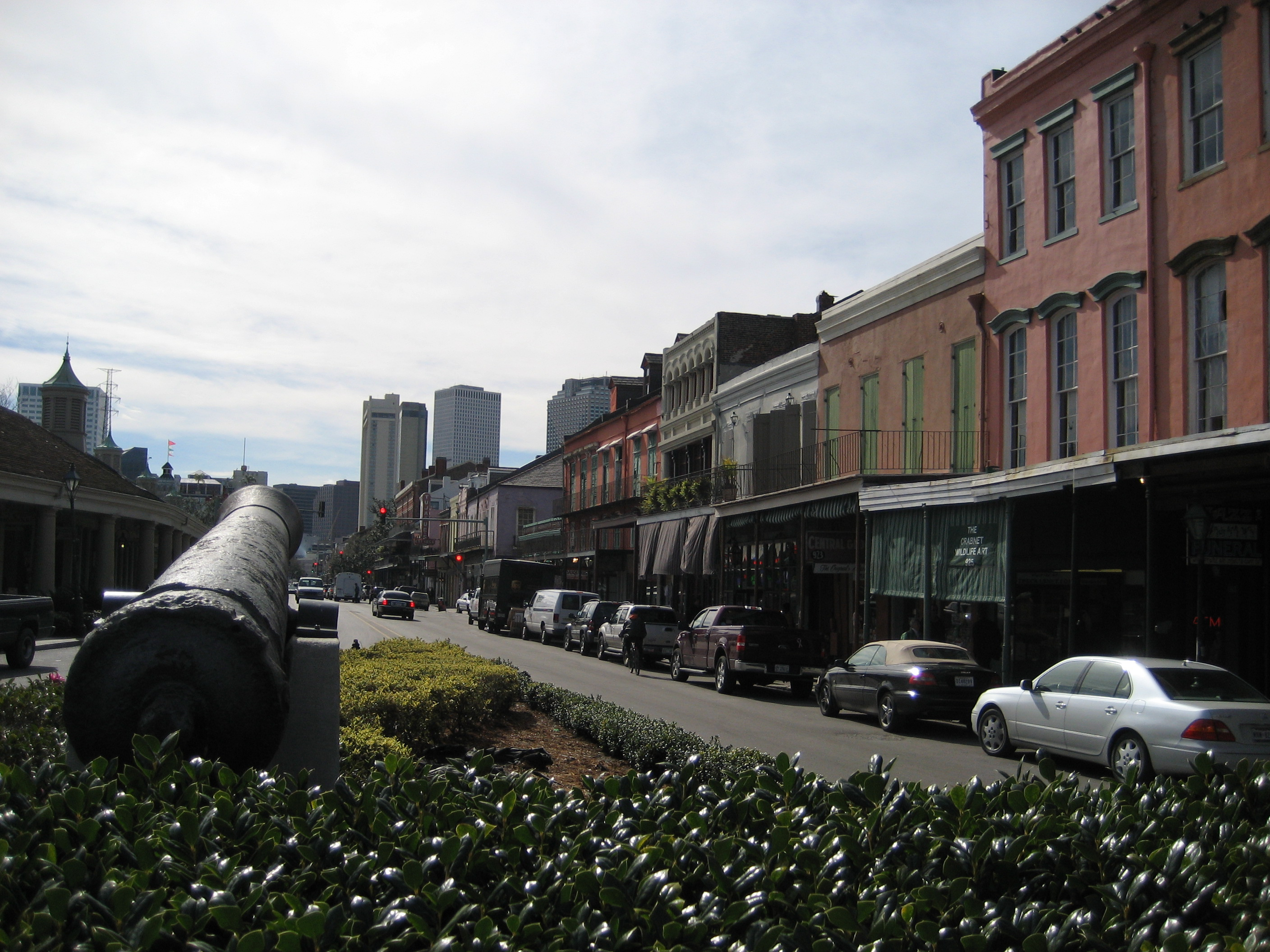 French Quarter of New Orleans, Louisiana View up Decatur Street from Joan of Arc monument.